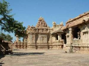 Pattadakal- Virupaksha Temple Photograph taken by me (KRS) in December 2003